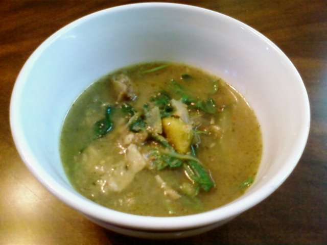 Somlar kor ko, considered the national dish of cambodia